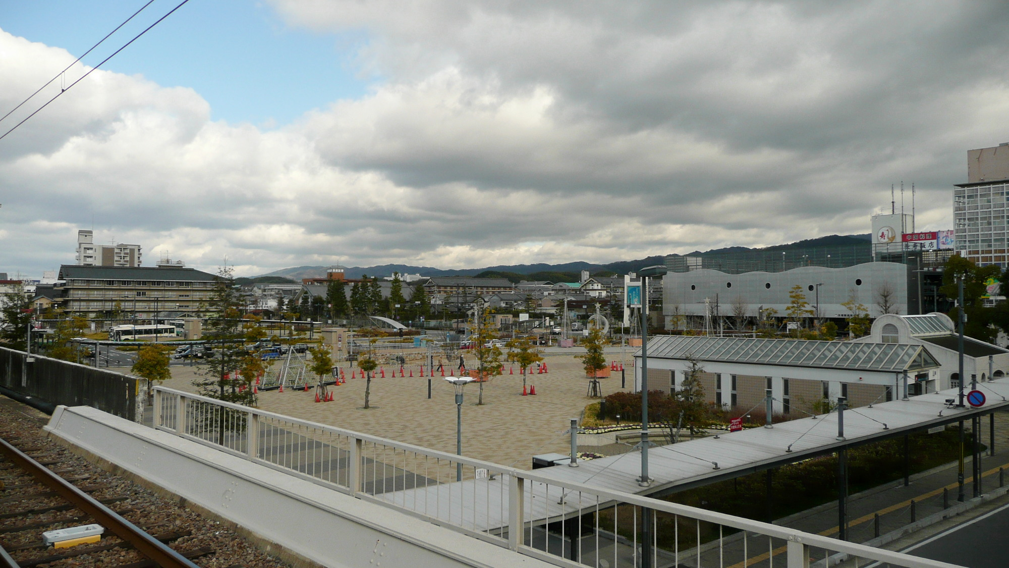 Kinki Nippon Railway,Tenri Line & West Japan Railway,Sakurai Line,Tenri Station plaza. / 天理駅・駅前広場